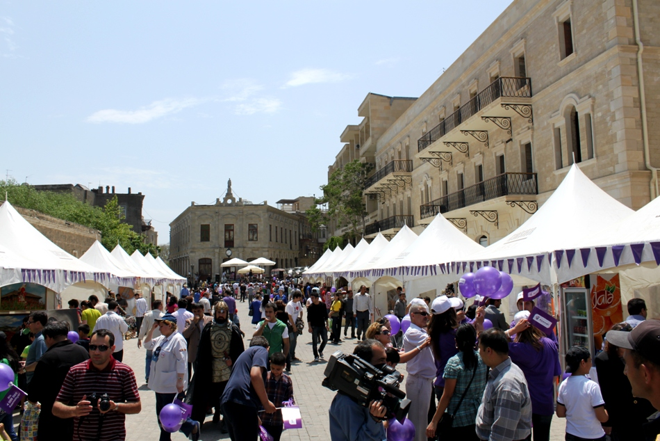 Baku old city.